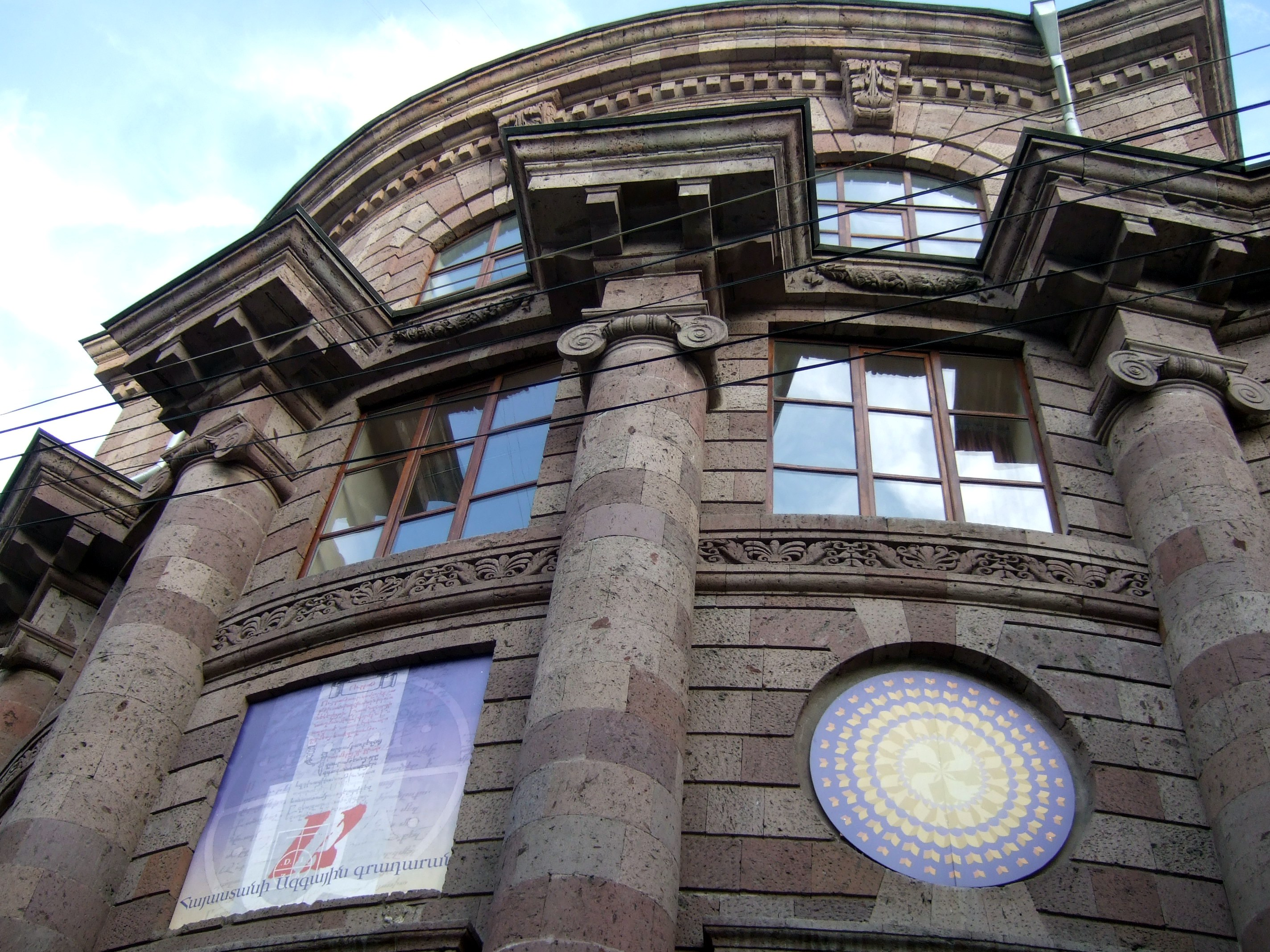 National Library of Armenia 6/66